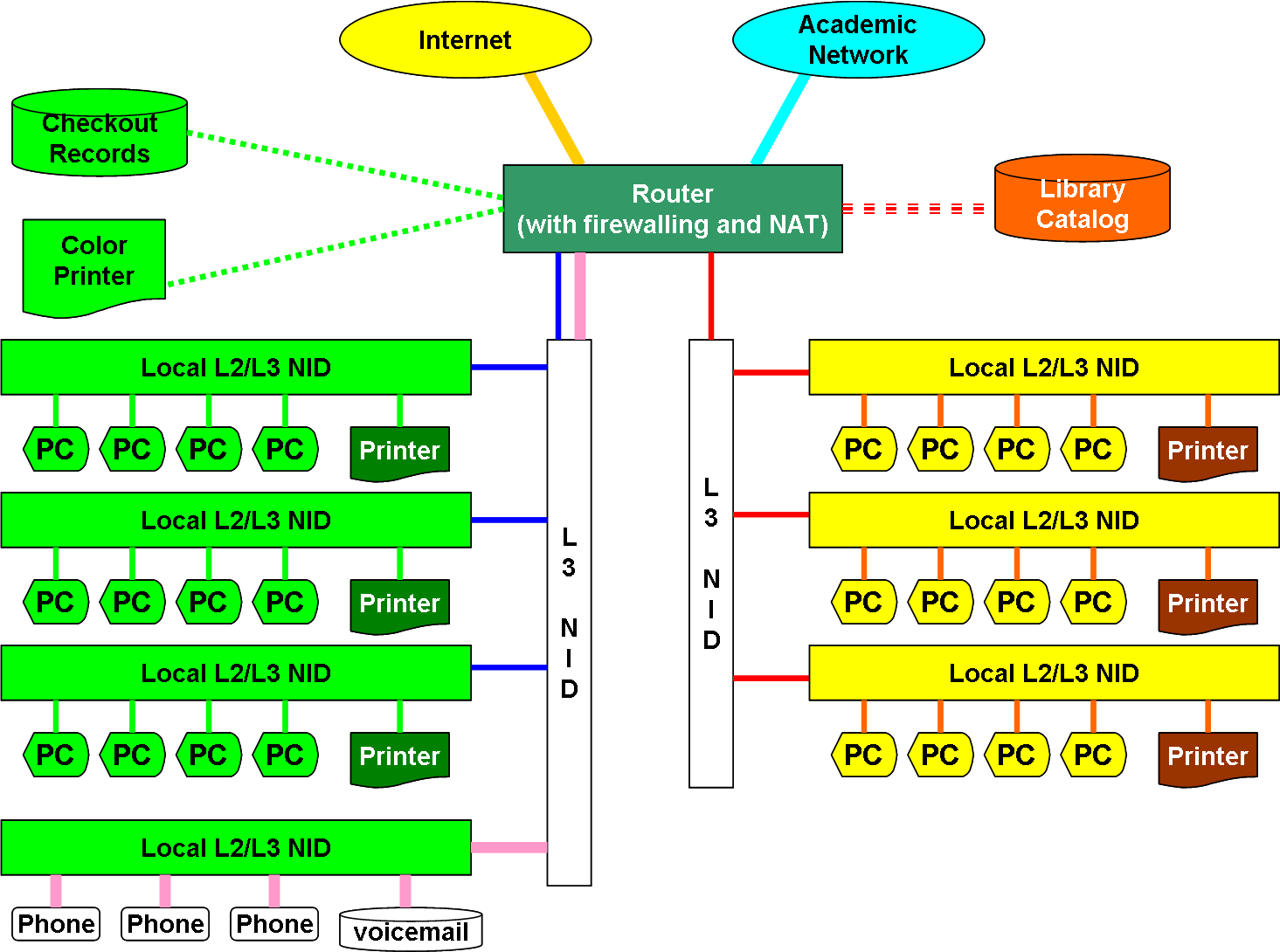 Representative academic library LAN with external access